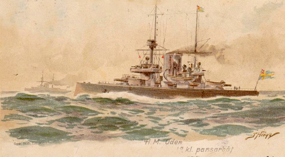 Swedish Coastal defence ship Oden